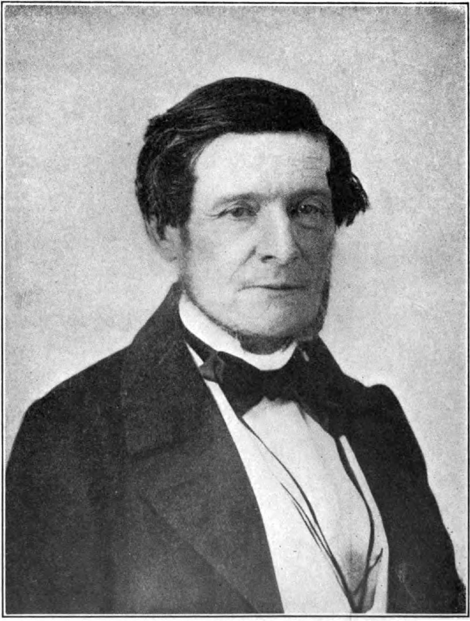 Charles Spackman Barker (10 Oct 1806 – 26 Nov 1879 in Maidstone) was an English inventor and organ builder.